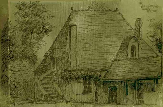 Le Clerc house Touraine Famille Le Clerc